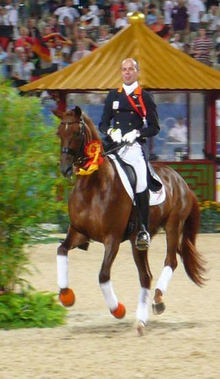 The silver medalists - Riders from the Netherlands in Beijing 2008 Olympic Game - Equestrian Event - Victory Ceremony of Dressge Team Grand Prix.